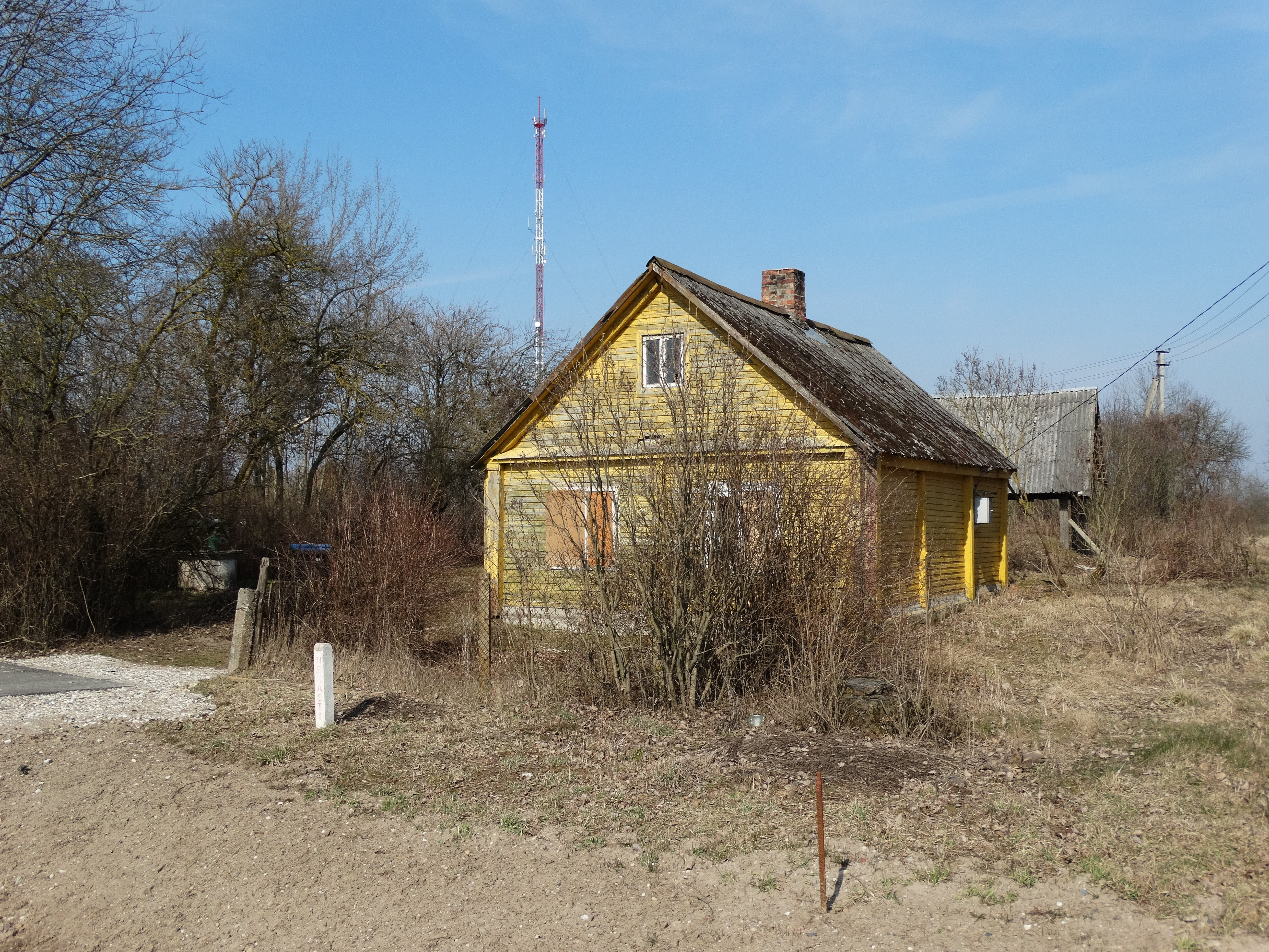 Antakalnis II, Ukmergė district, Lithuania